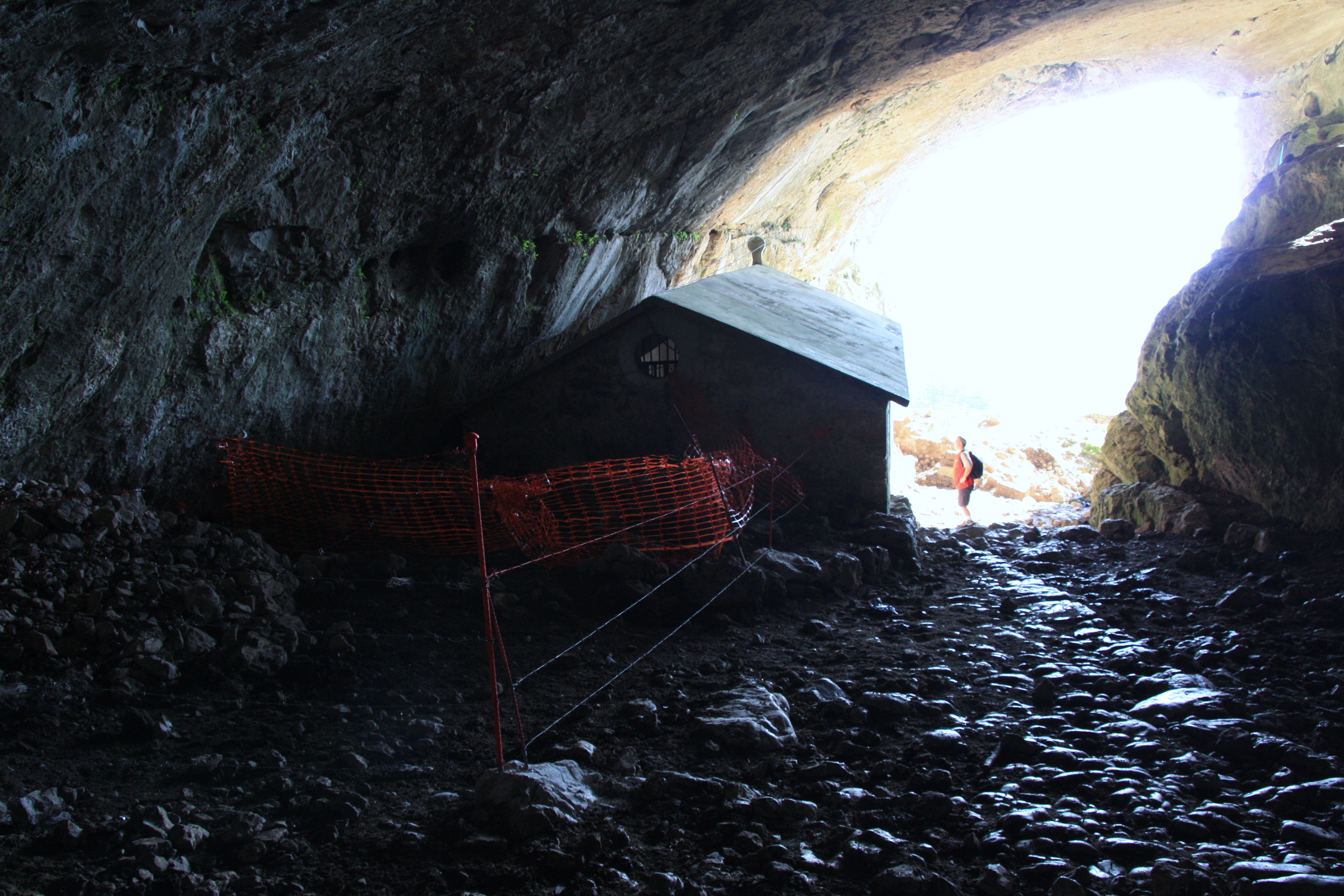 San Adrian´s hermitage in Lizarrate tunnel (Aizkorri, Guipuscoa, Basque Country).